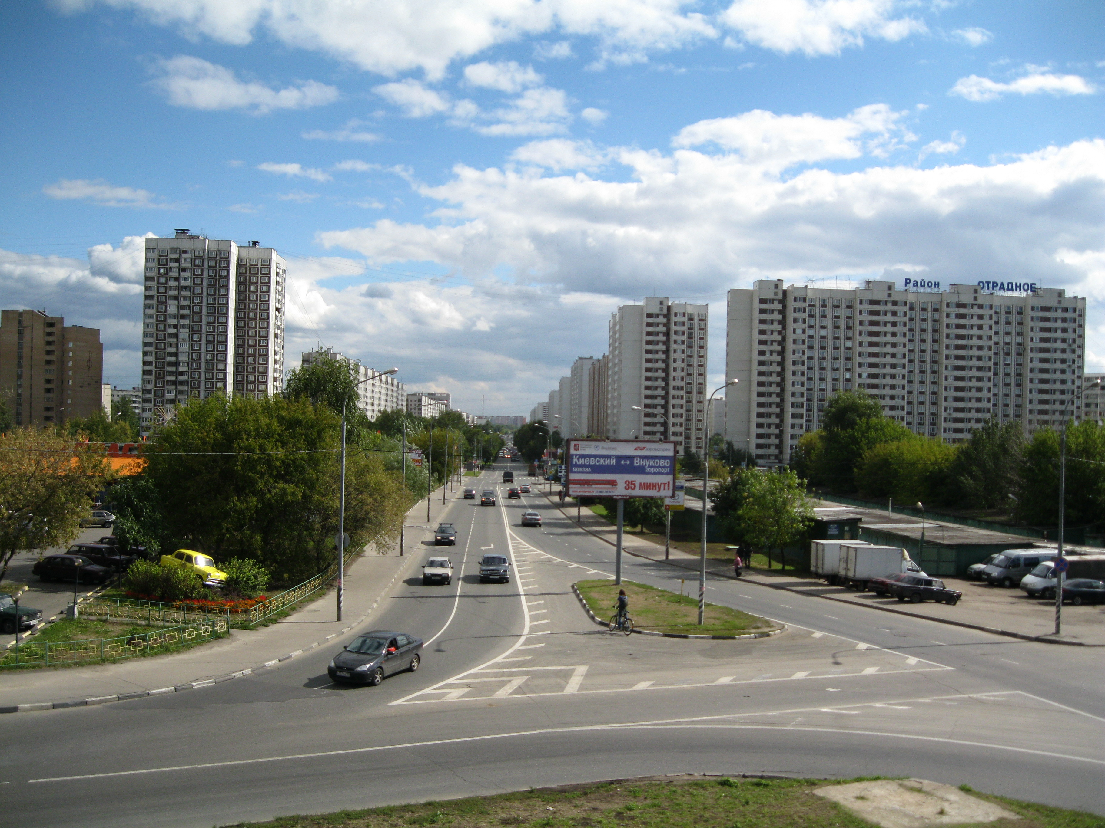 Dekabristov street in Moscow, Russia